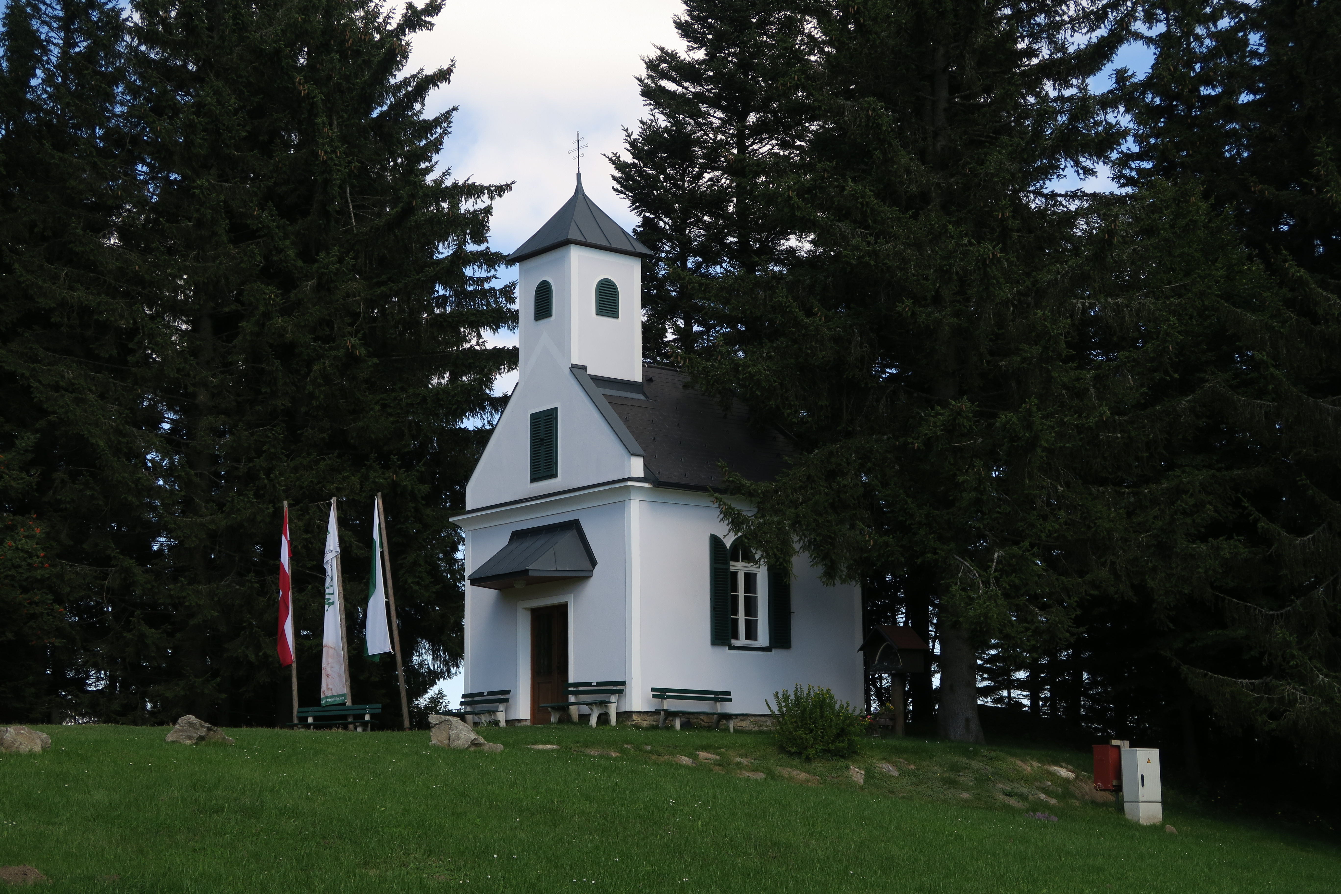 Chapel Masenberg